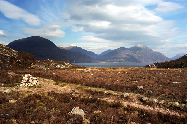 Looking northeast to the Torridons from the Shieldaig Peninsula.